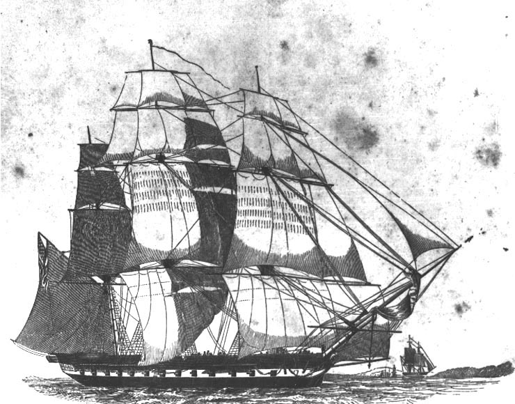 Engraving of the ship under full sail, after a drawing by Master William Brady, USN. Copied from the Kedge Anchor. U.S. Naval History and Heritage Command Photograph.